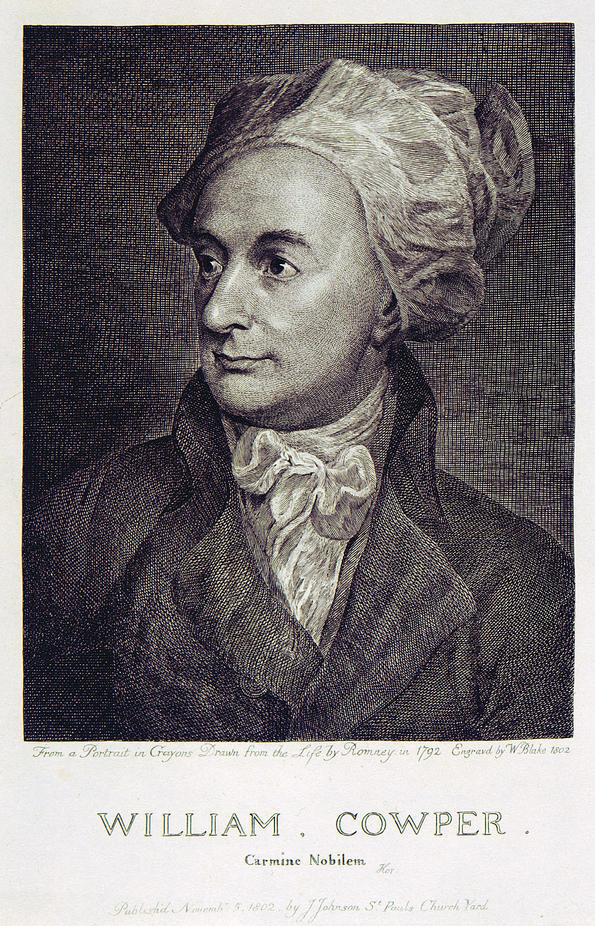 Engraved by Blake after George Romney for William Hayley The Life and Posthumous Writings of William Cowper 1803-1804 Essick Collection